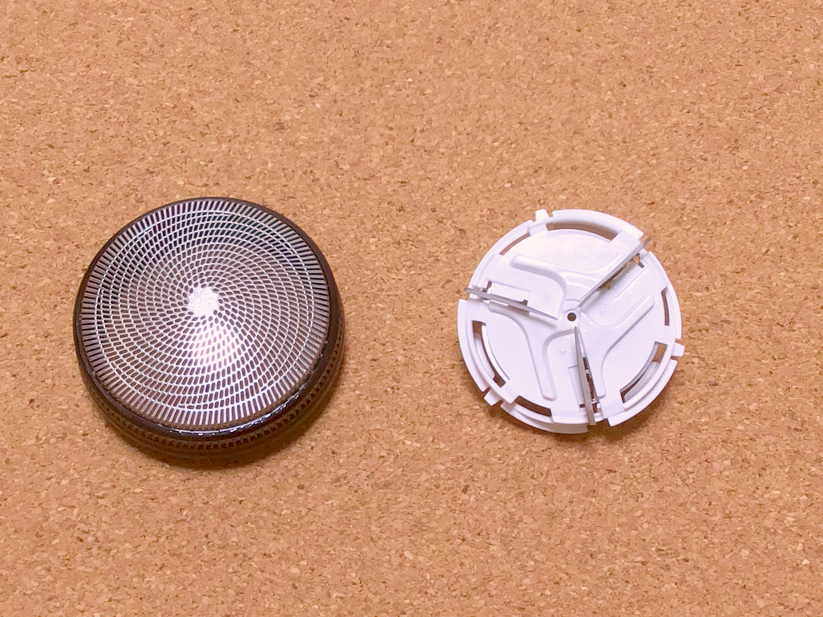 Shaveing Head. Outer foil and Inner blade. Panasonic ES9392 (WES9392).